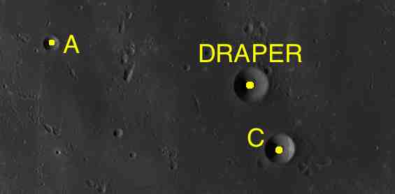 Part of the chart LAC-40 used for the presentation